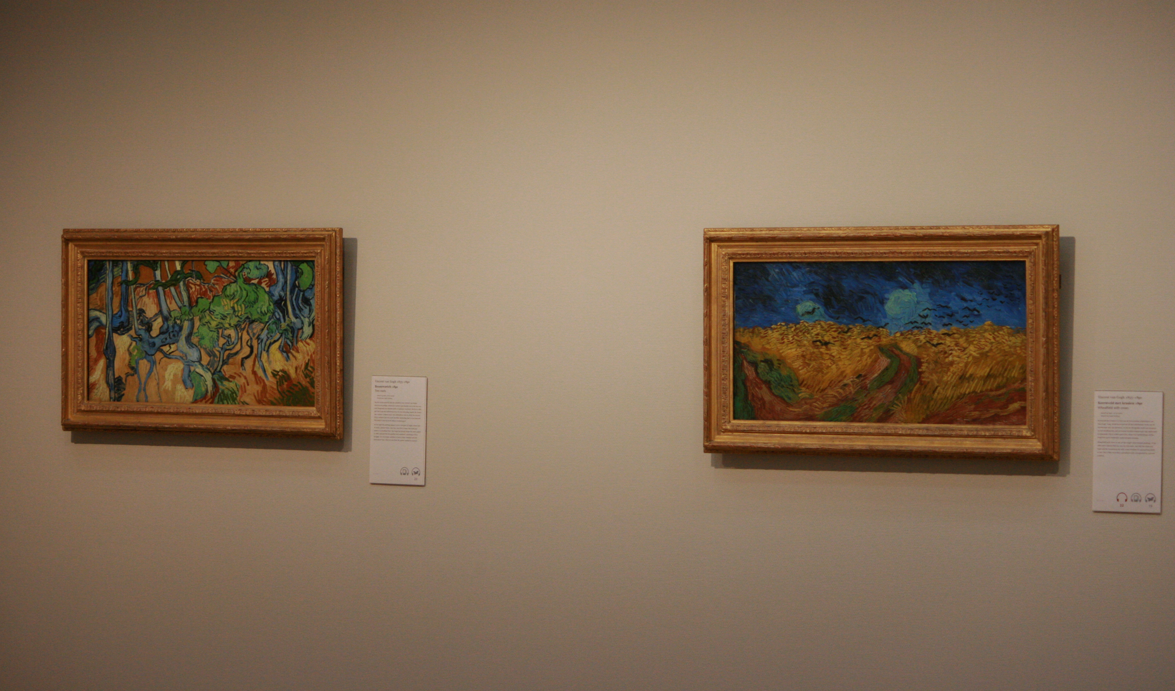 Inside the Van Gogh Museum